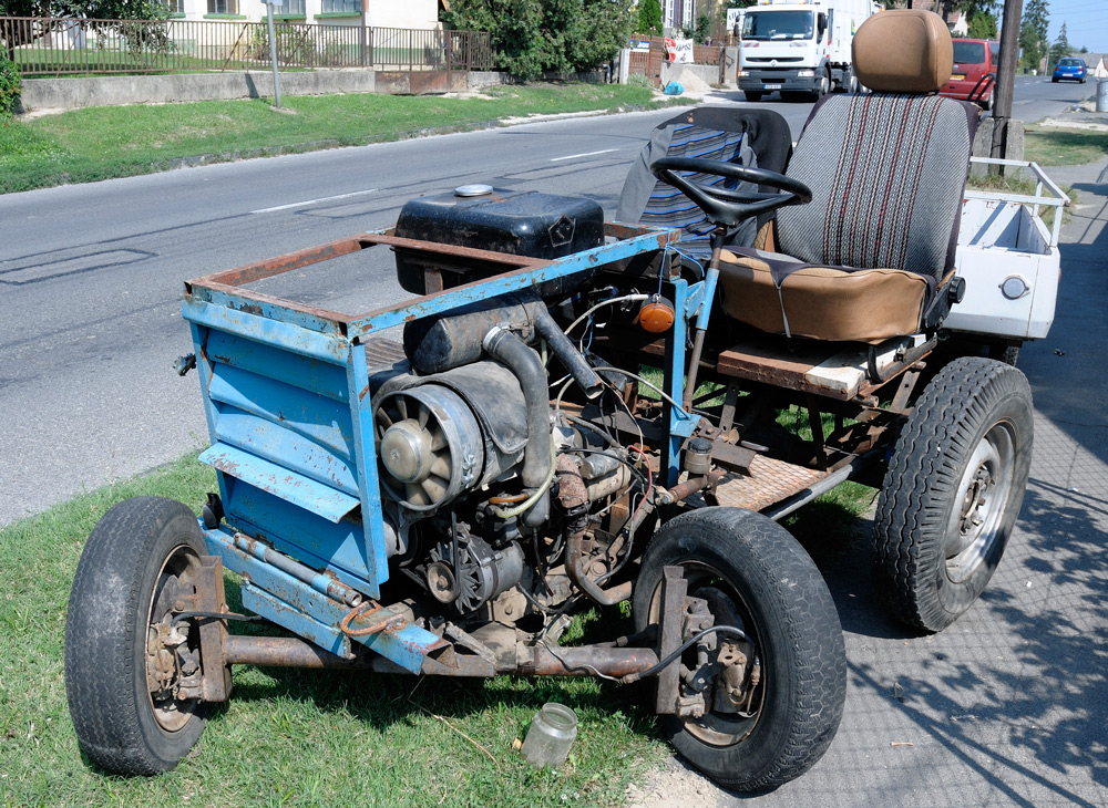 A Hungarian self-made tractor, most parts from Eastern German car "Trabant".